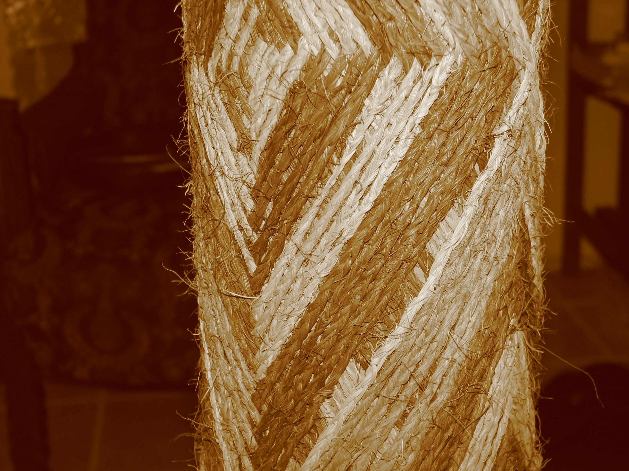 Magimagi is a product made of coconut husk.